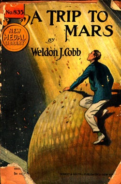 Street & Smith dime novel Trip to Mars (1915) [1], story by Weldon J. Cobb